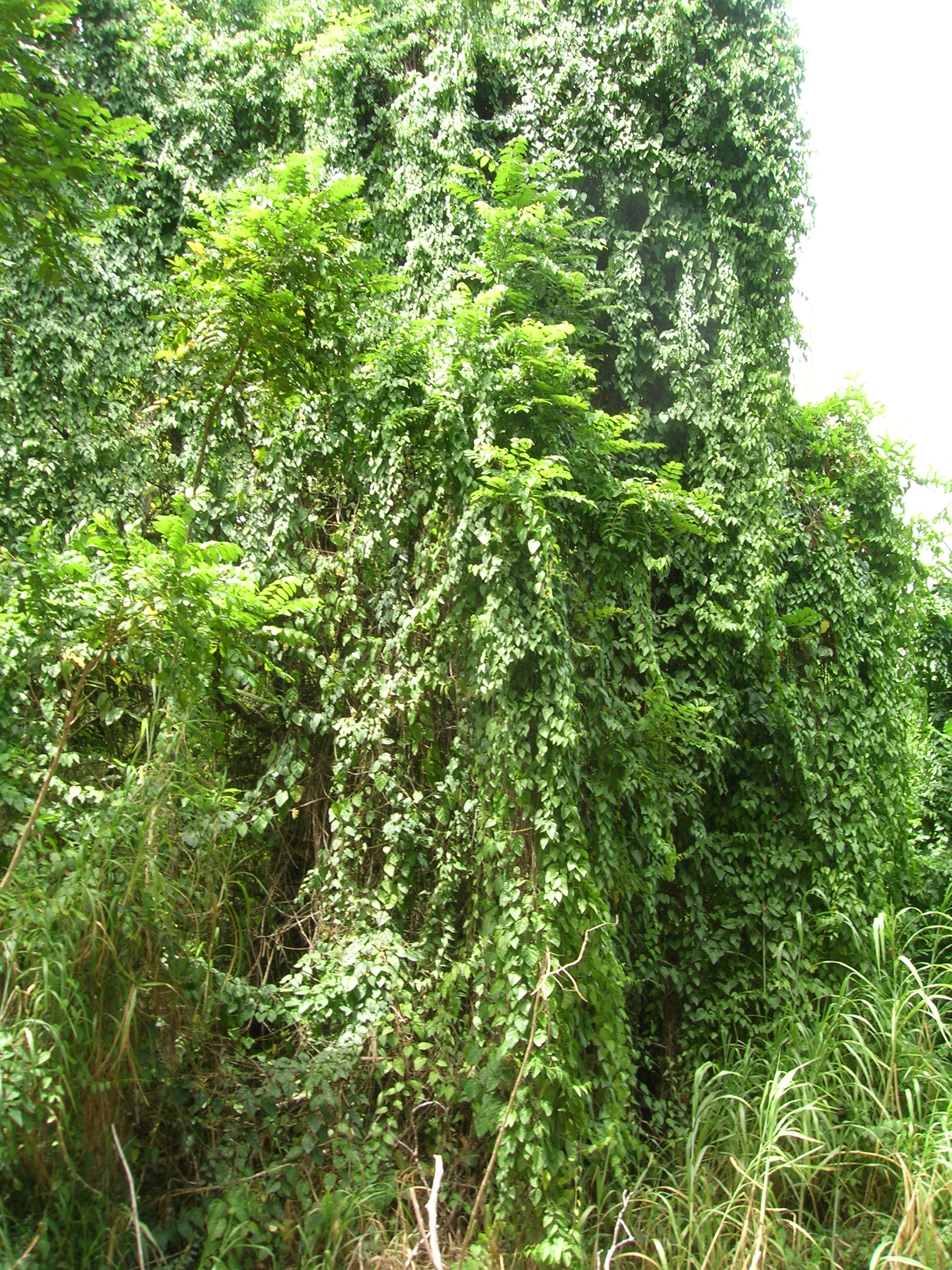 Cissus verticillata (habit). Location: Oahu, Waimanalo